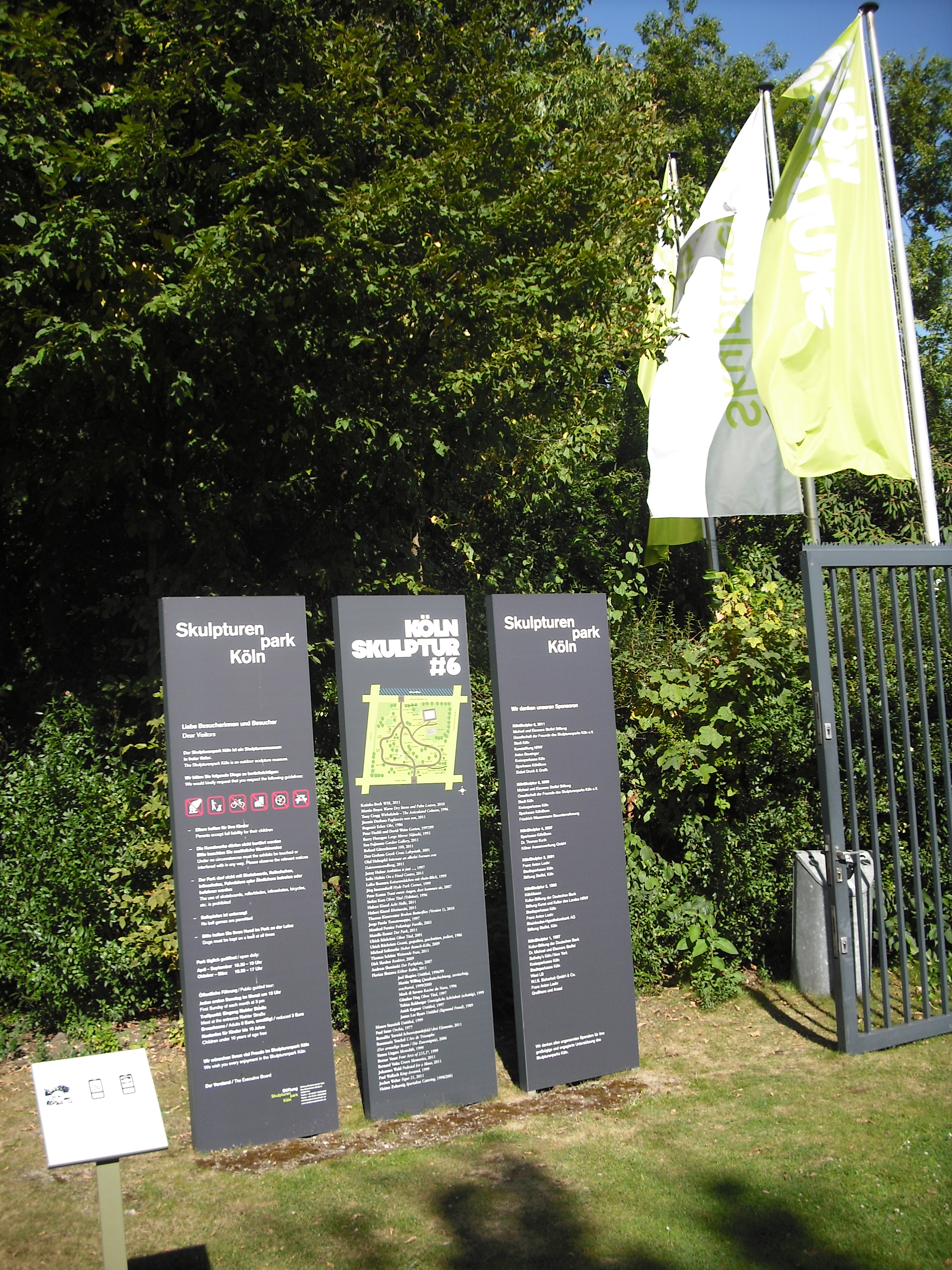 Skulpturen Park Köln, August 2012, 16, entrance